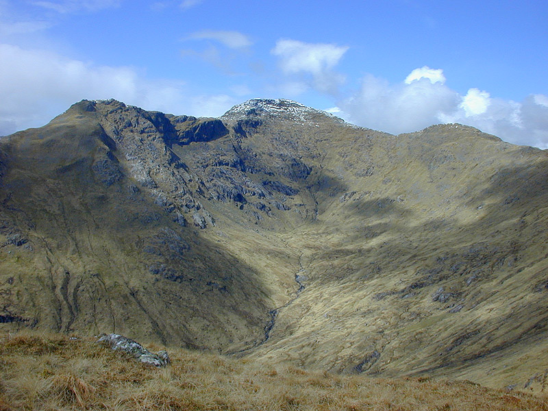 Sgùrr nan Coireachan The east side of the mountain, overlooking Coire Thollaidh, as seen from Druim Choire a' Bheithe